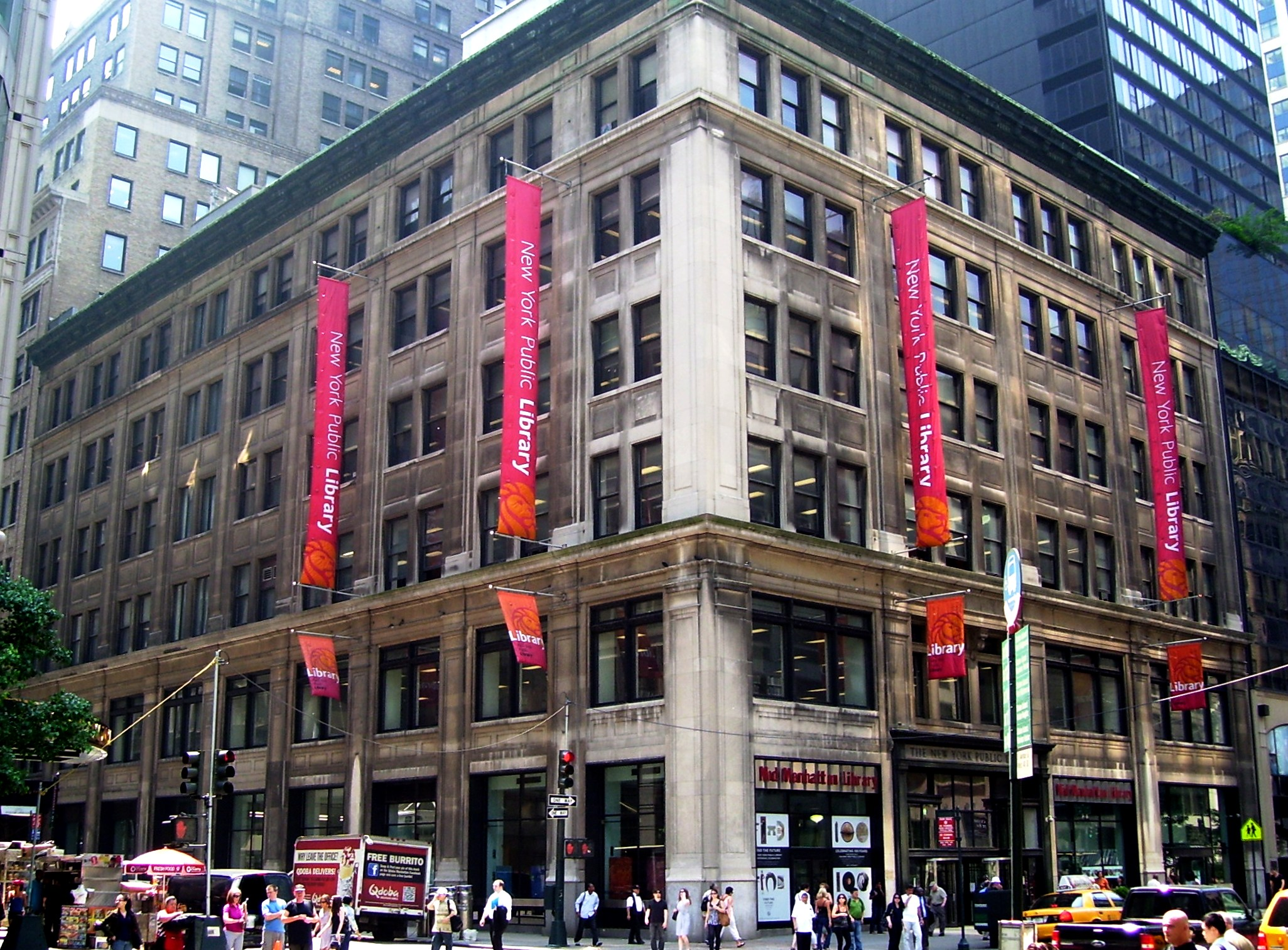 The Mid-Manhattan Library at 453 Fifth Avenue on the corner of East 40th Street in Midtown Manhattan, New York City. The building dates from 1915. (Source: NYC GIS map)